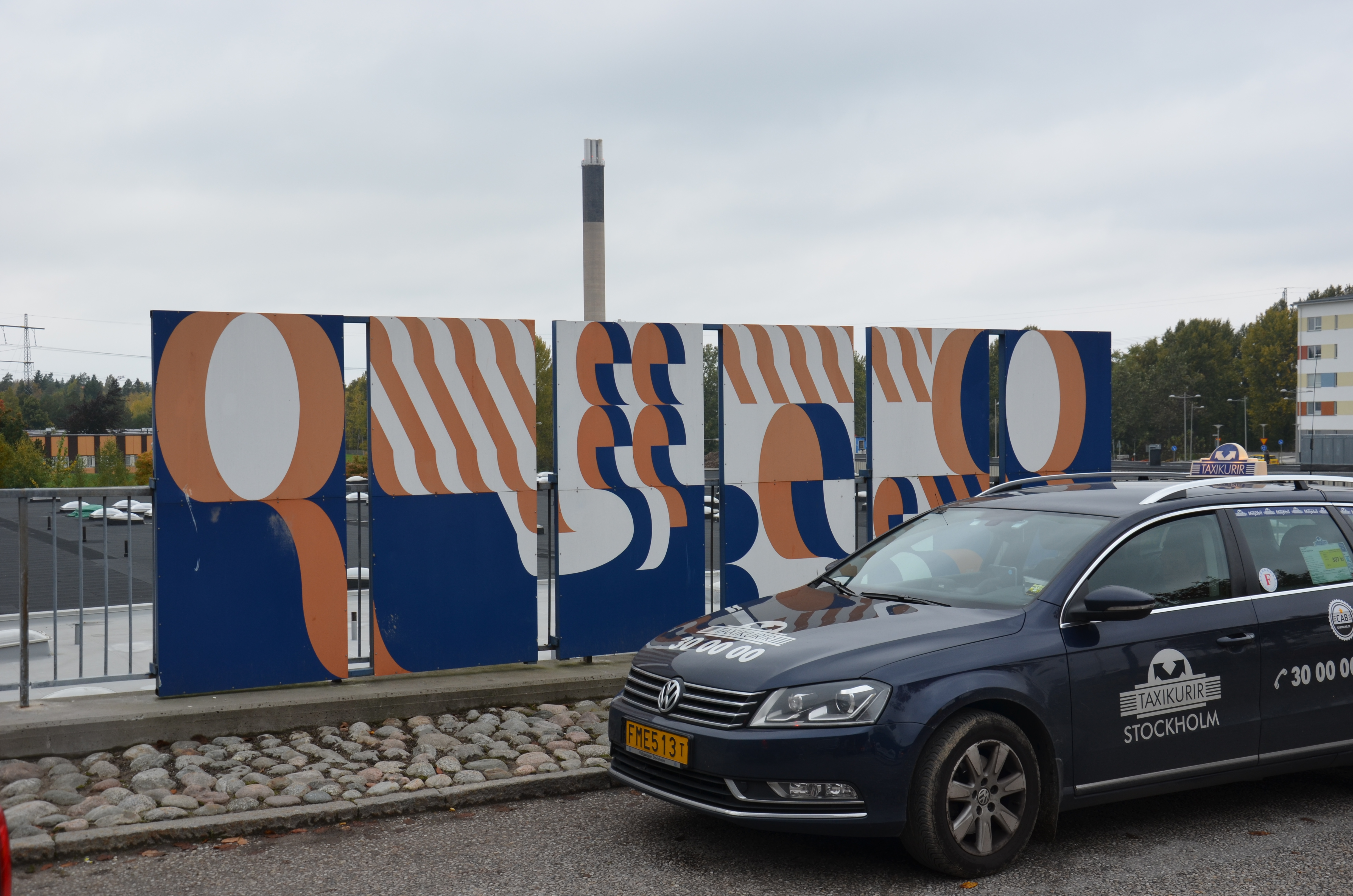 Beck och Jungs Hej patient, Karolinska universitetssjukhus i Huddinge, brännlackerad aluminiumplåt, 1972, entrén till sjukhuset